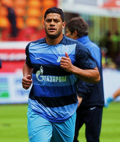 Hulk 05.2014